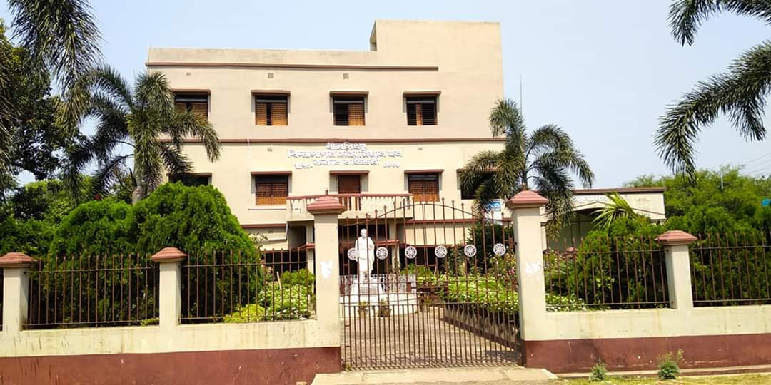 Ishwar Chandra Vidyasagar Memorial Hall at Birsingha village, Paschim Medinipur, India